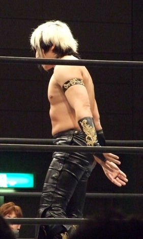 Professional wrestler Taichi at a New Japan Pro Wrestling event.